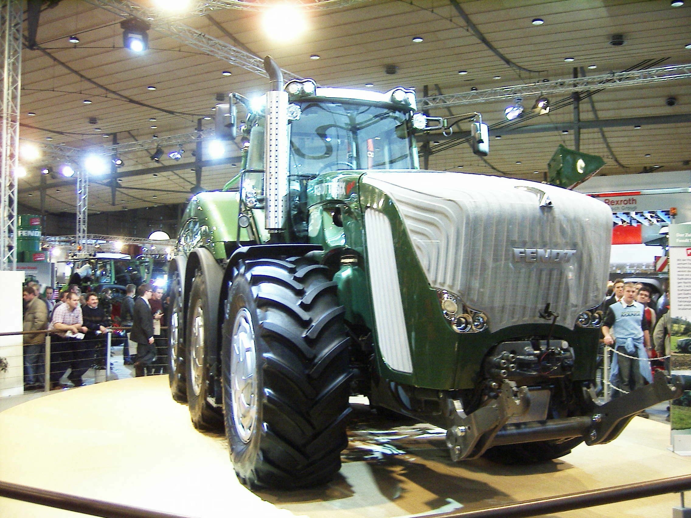 Fendt Trisix experimental tractor on the 2007 Agritechnica farm fair in Hannover, Germany.